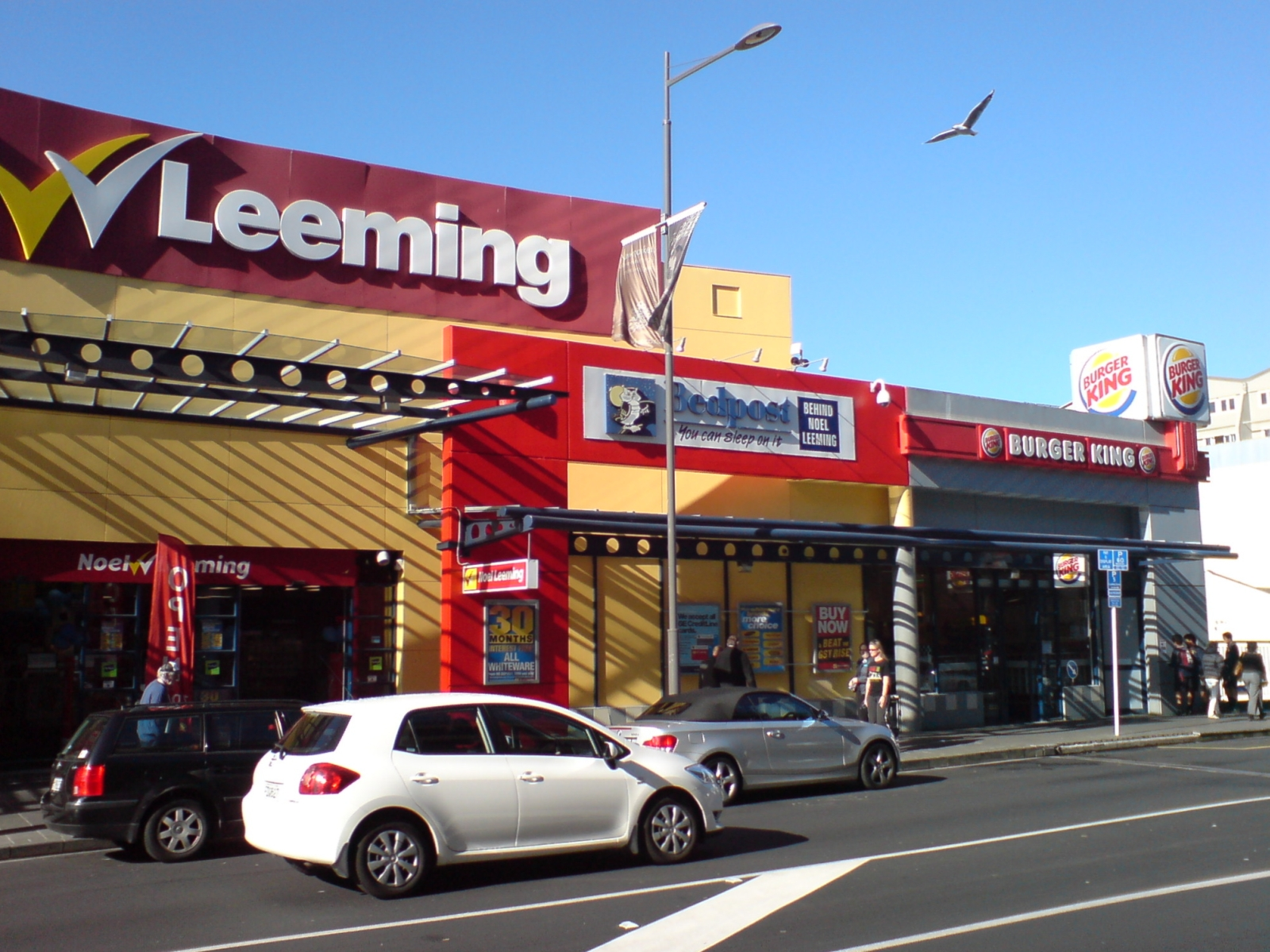 Shops and a fast food restaurant in Newmarket, Auckland, New Zealand.